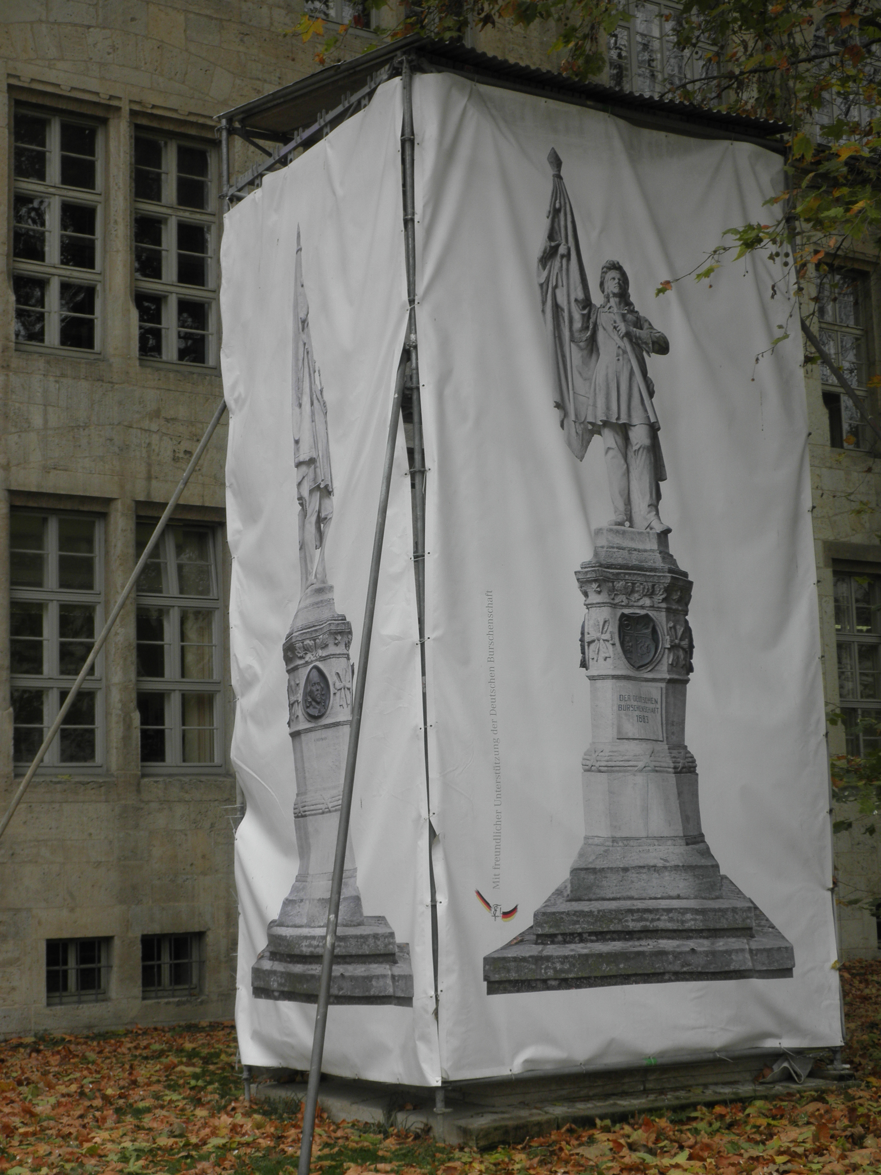 Students Monument in Jena in November 2013